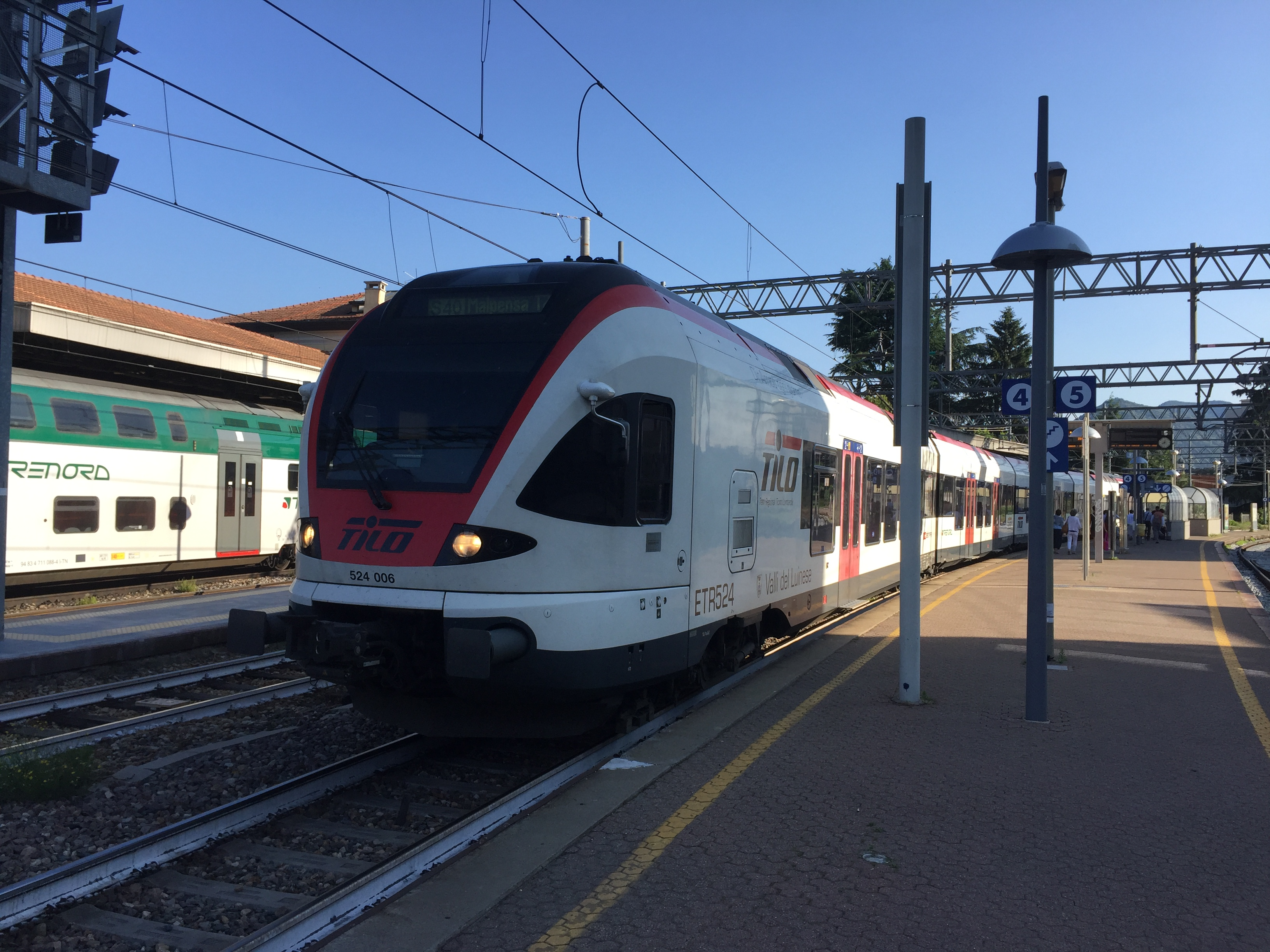 SBB CFF FFS RABe 524 014 leaving to Malpensa Airport from Varese train station as S40 from Como.